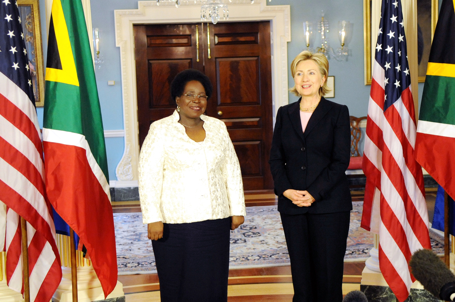 U.S. Secretary of State Hillary Rodham Clinton during bilateral meeting with South African Minister of Foreign Affairs H.E. Nkosazana Dlamini-Zuma of the Republilc of South Africa in Washington, DC March 19, 2009. [State Department photo]